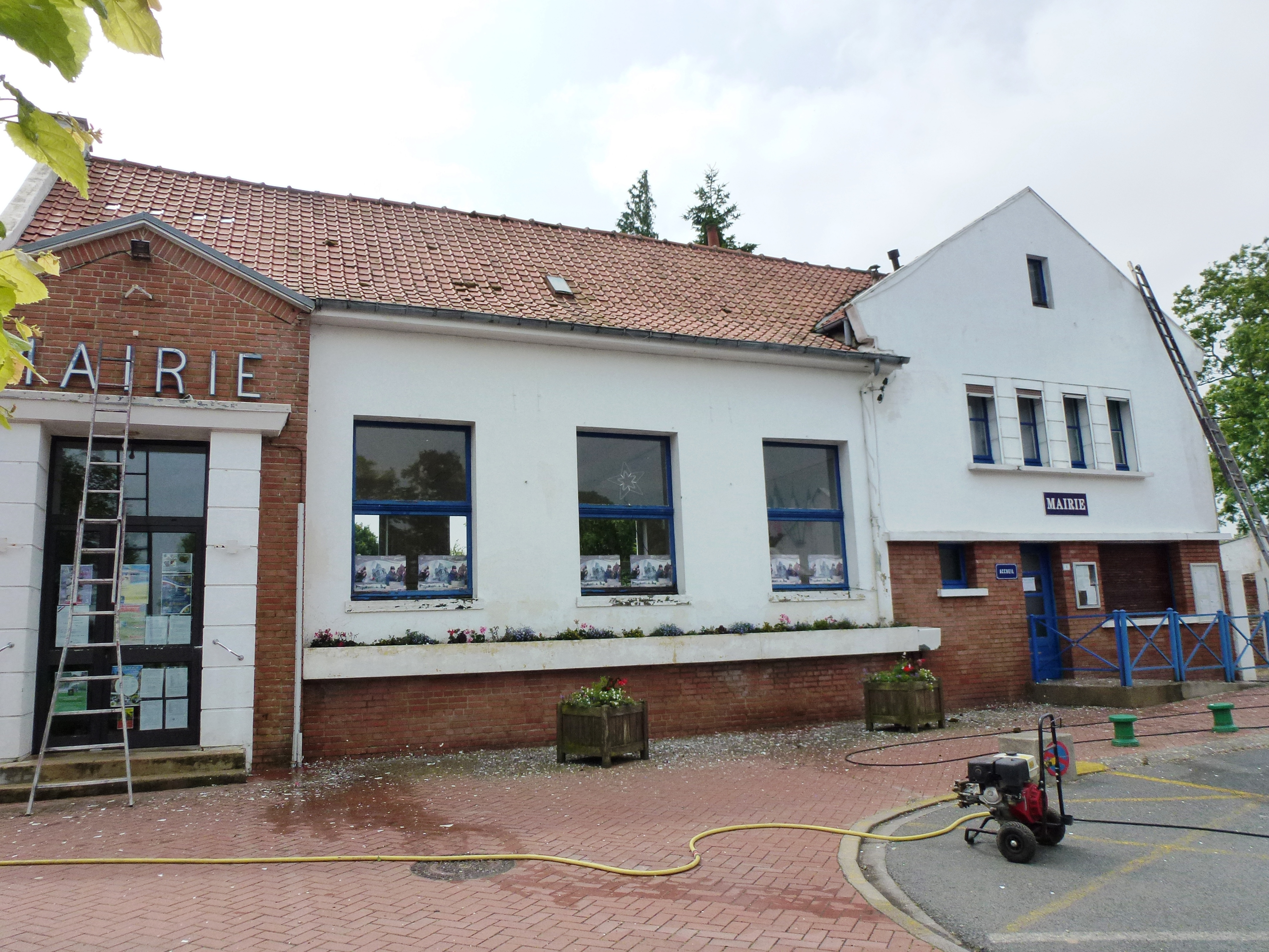 Amettes (Pas-de-Calais, Fr) mairie